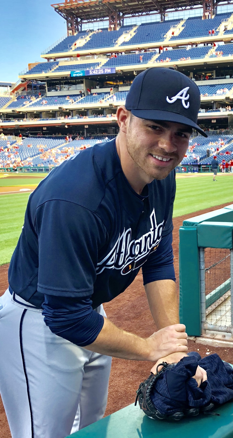 Jesse Biddle with the Braves in Philadelphia